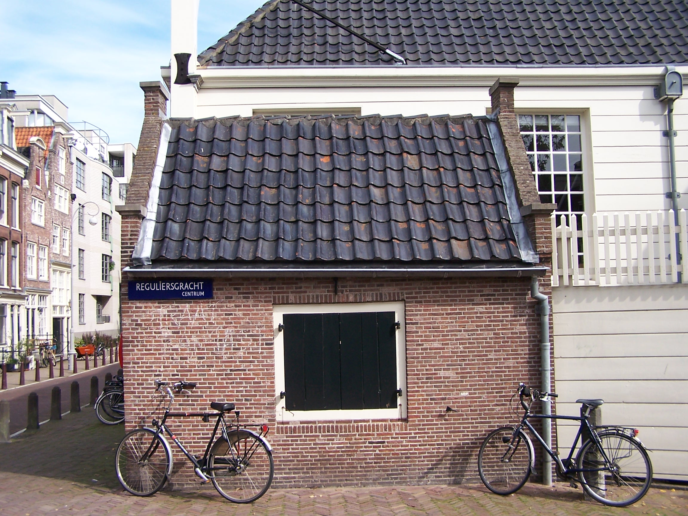 Amstelkerk, a tiny shed adjacent to the main church building